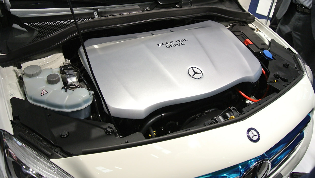 eCarTec Munich 2013: Mercedes-Benz B-class Electric Drive